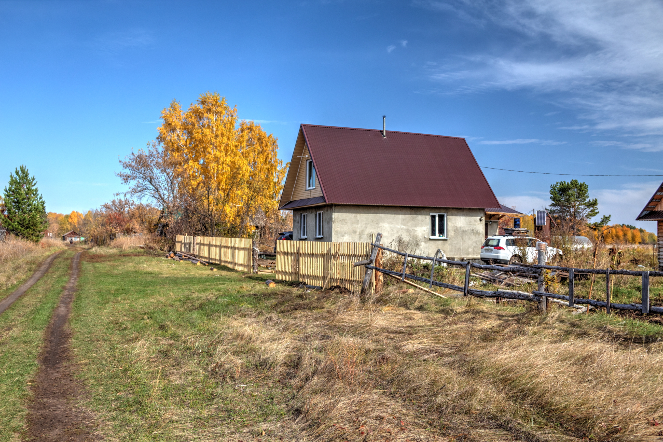 Autumn in Bystroistokskiy district of Altai krai Russia